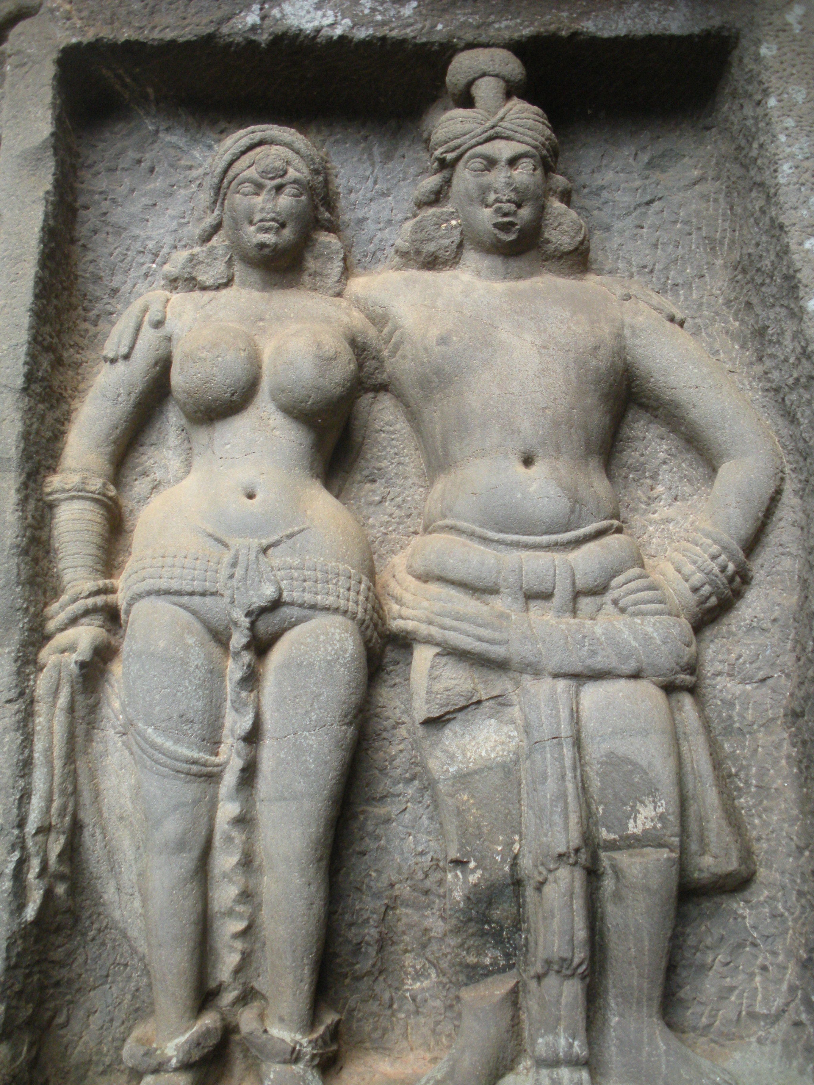 Karla Caves, Maharashtra